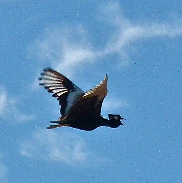 Short Dune Road, Kgalagadi Transfrontier Park, SOUTH AFRICA